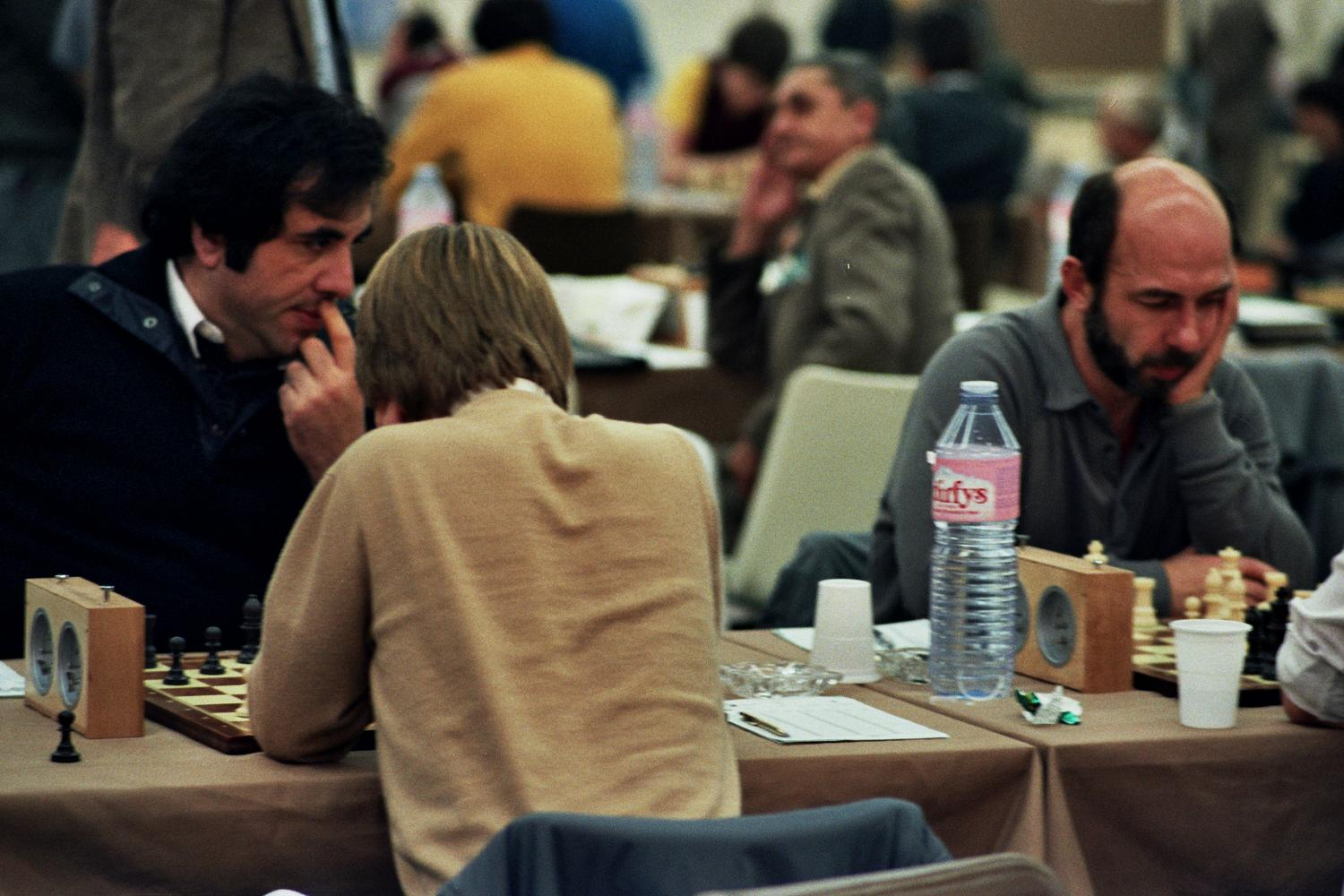 Roman Dzindzichashvili - Ulf Andersson, Lubomir Kavalek, Chess Olympiad 1984 in Thessaloniki, Photographer Gerhard Hund.